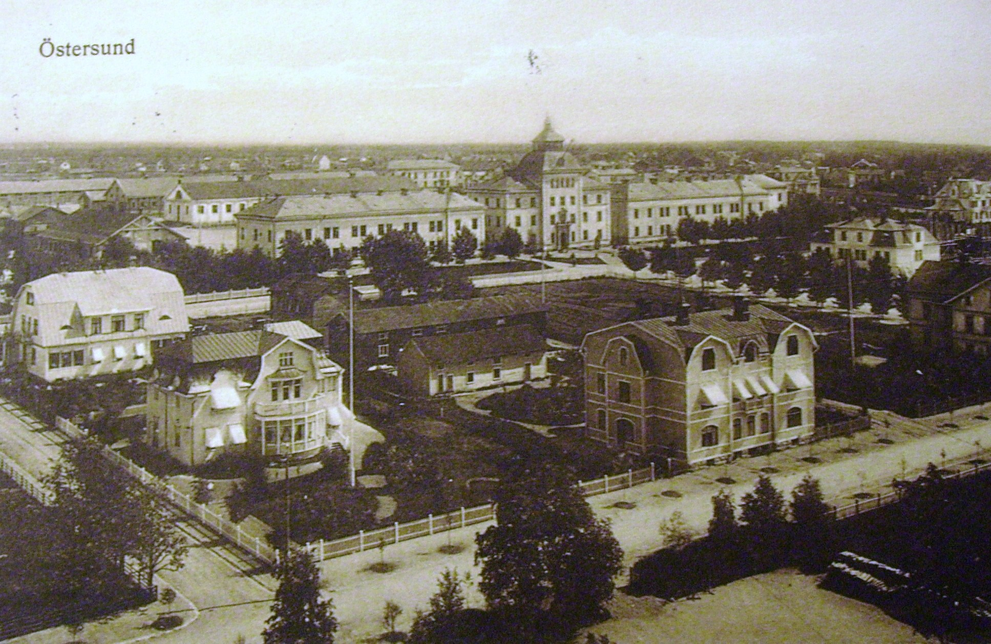 Picture of Östersund